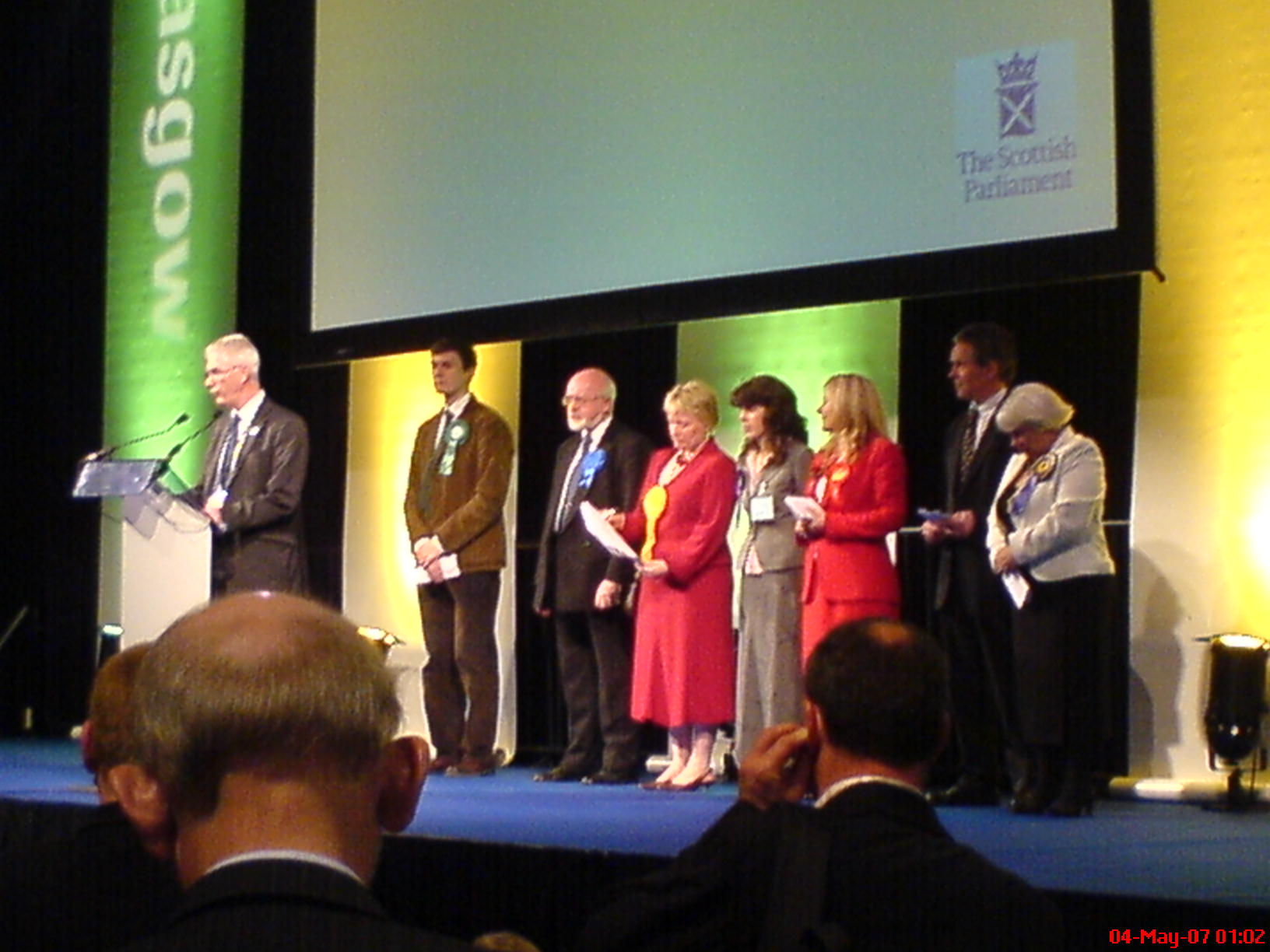 A picture I took at the count at the Glasgow count in the SECC in Glasgow on 3 May 2007. It shows the result being declared for the Kelvin constituency.